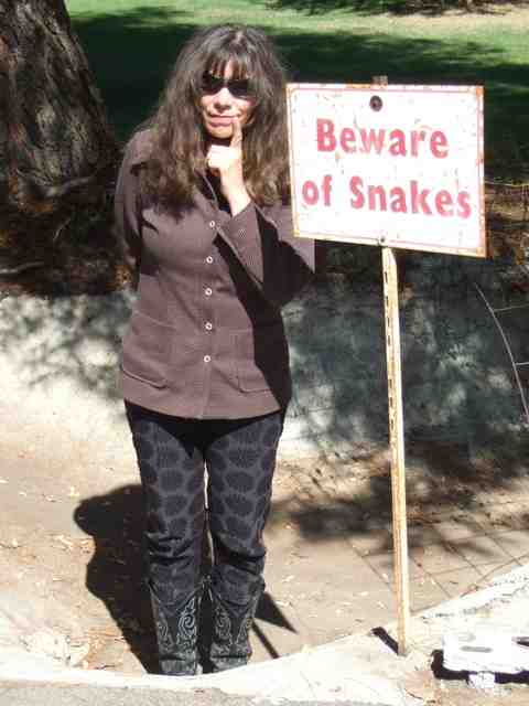 Photograph of Mary Jo Bole